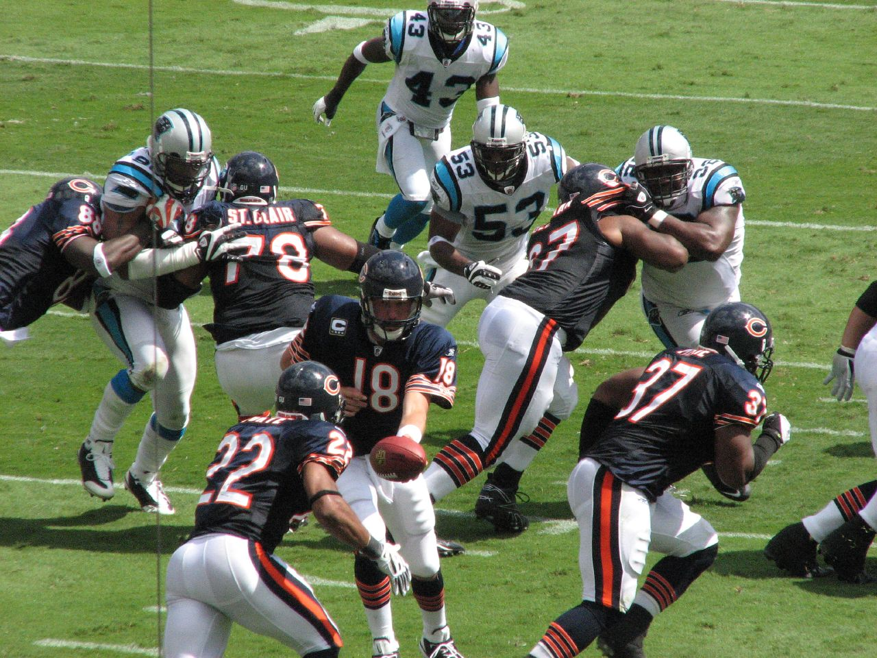 Chicago Bears quarterback Kyle Orton handing the ball of to running back Matt Forté.